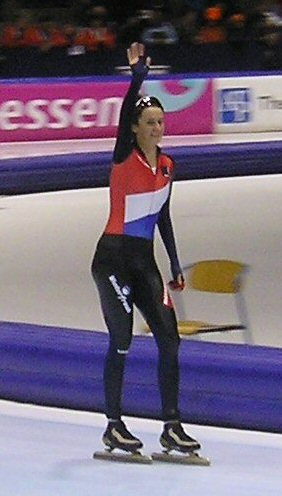 Martina Sáblíková (CZE) at a World Cup in Thialf (Heerenveen, The Netherlands)